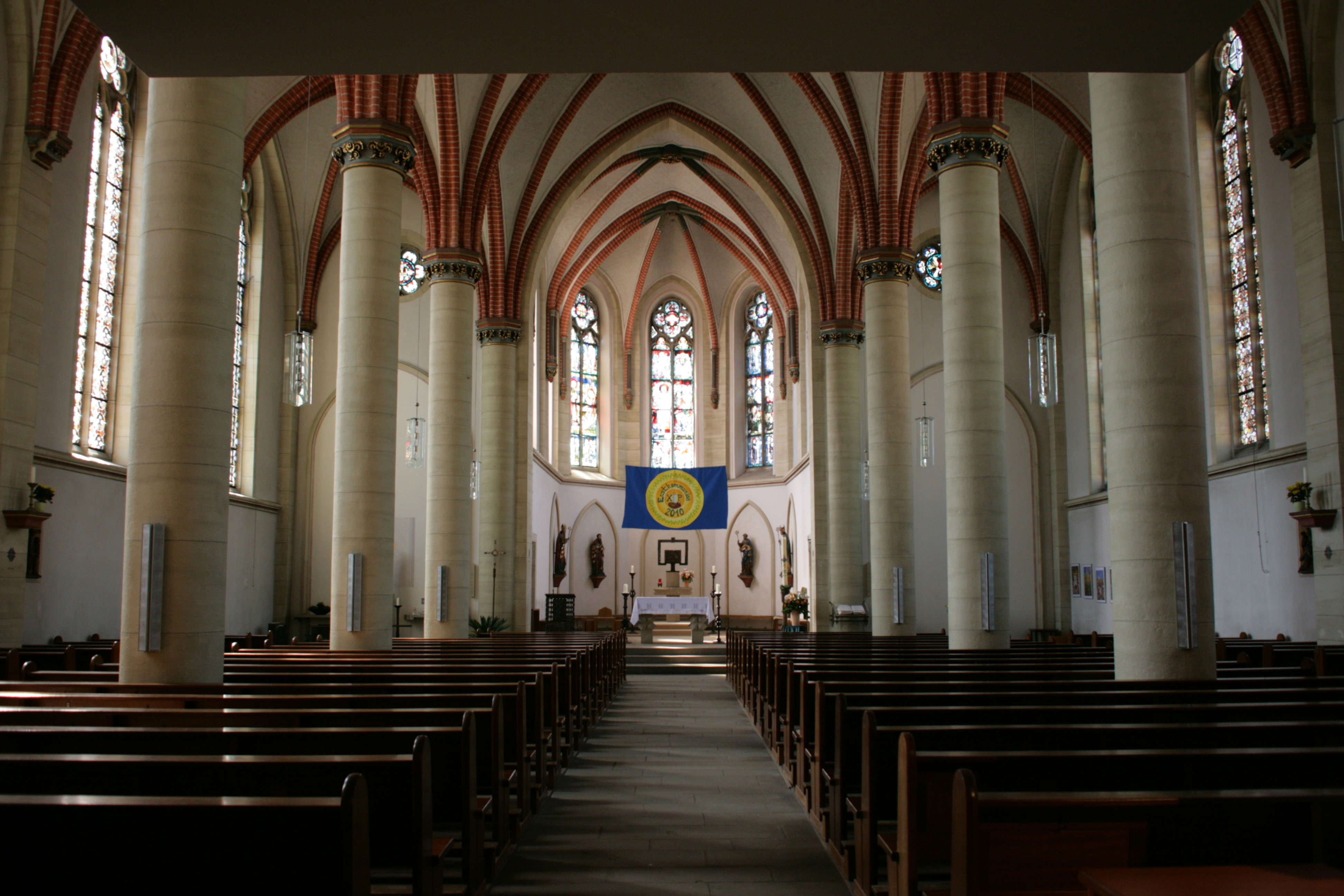 Sankt Peter und Paul, Bahnhofstraße in Hattingen